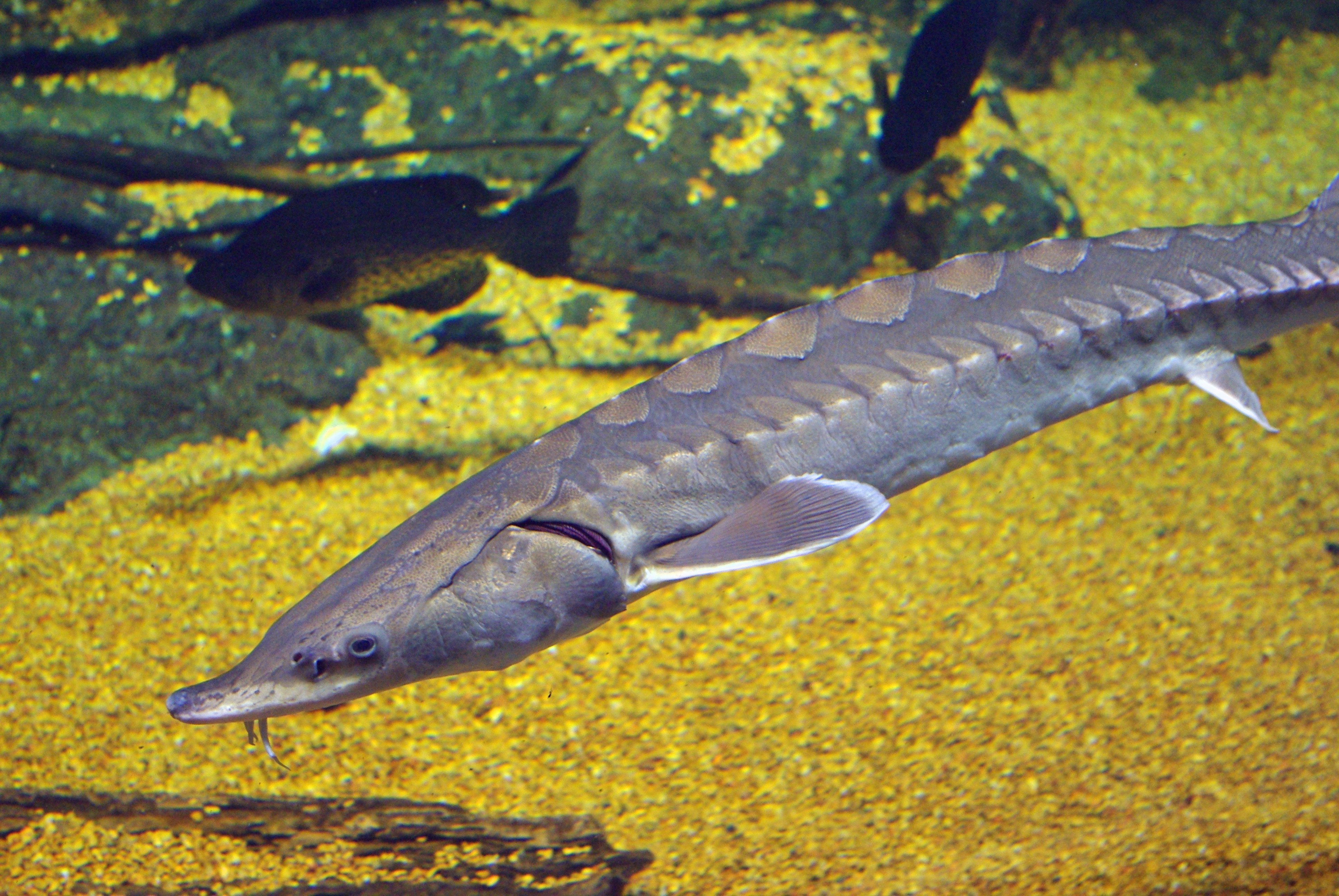 The threatened Atlantic Sturgeon can be found in the James and York Rivers